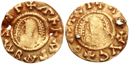 Coin of the Axumite king Wazeb (Wazen)